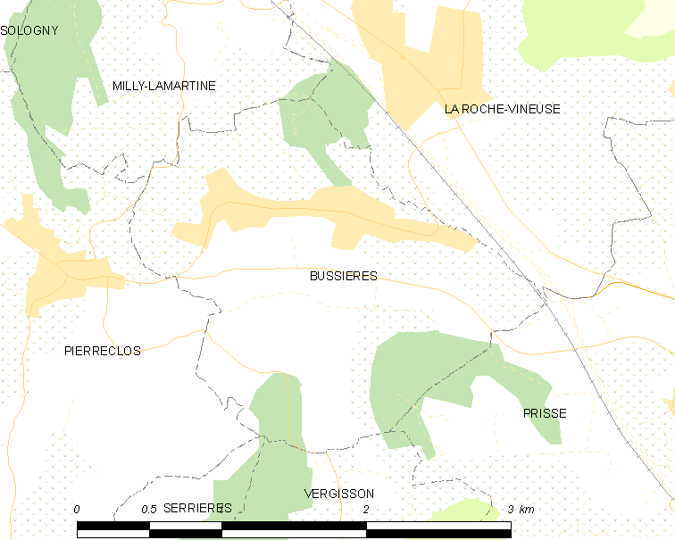 Map of French municipality